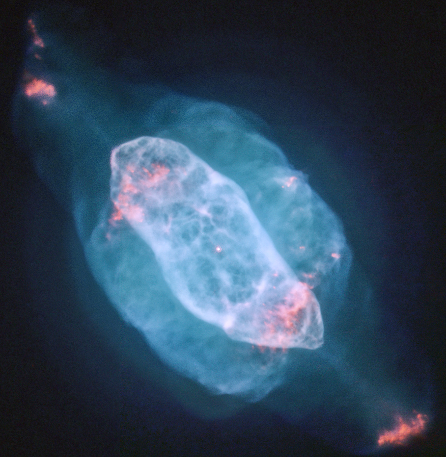 I was surprised to find concentric shells around this one, much like the Cat's Eye Nebula that is so famous. They are quite faint and were difficult to process but they should be easy enough to spot. Processing notes: I combined the PC data with the rest of the WF data to create a partially more detailed image than without the PC data. The bad part of this is that I have a very hard time getting the two to match up no matter what I do and some parts of the PC data are actually less detailed. I sort of understand why but I don't understand it well enough to explain it better. I mix and matched it in a way I thought was both aesthetic and faithful to the object. Anyway, there are some faint lines visible across the image because of this. Red: hst_11122_17_wfpc2_f658n_pc_drz + hst_11122_17_wfpc2_f658n_wf_drz + hst_08390_60_wfpc2_f658n_pc_drz Green: hst_11122_17_wfpc2_f656n_pc_drz + hst_11122_17_wfpc2_f656n_wf_drz Blue: hst_11122_17_wfpc2_f502n_pc_drz + hst_11122_17_wfpc2_f502n_wf_drz North is NOT up.